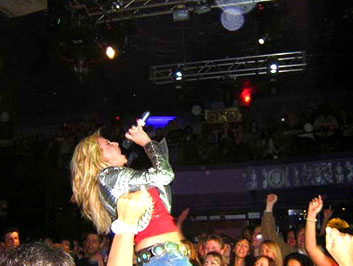 Anna Vissi performing her song Call Me as part of her promo club tour in the US at Crobar NYC.